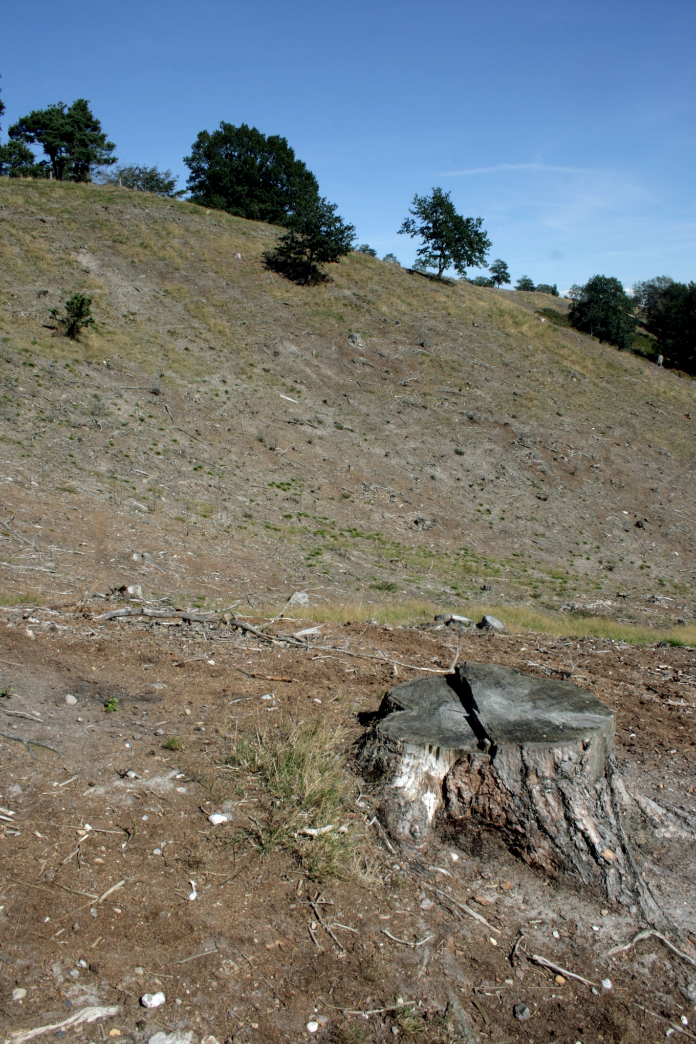 Dollerup Bakker, near Viborg, Jutland: An example of Restoration ecology.